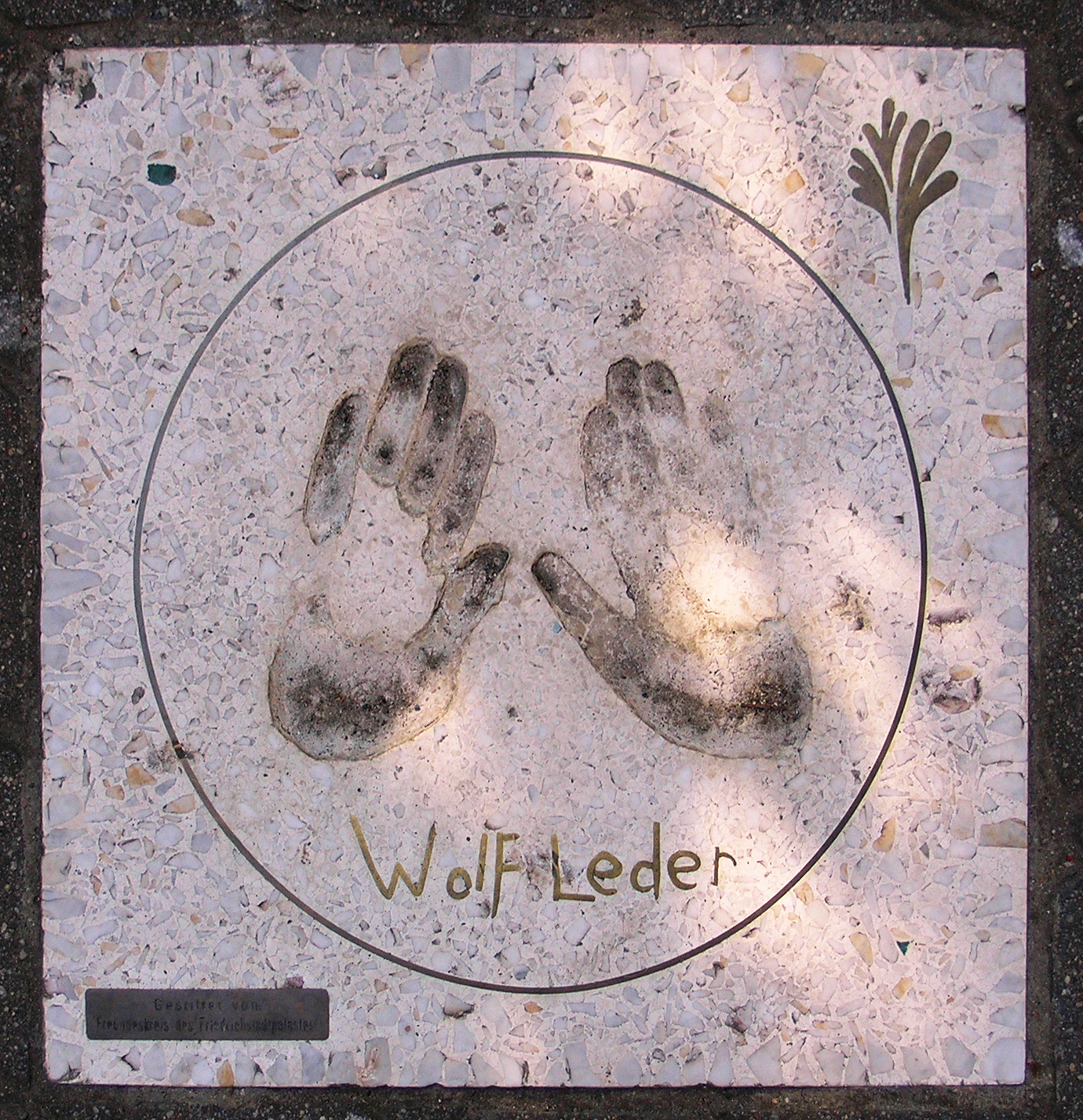 Memorial plaque, Wolf Leder, Friedrichstraße 107, Berlin-Mitte, Germany Koordinate:52°31′25″N 13°23′17″E / 52.52361°N 13.38806°E